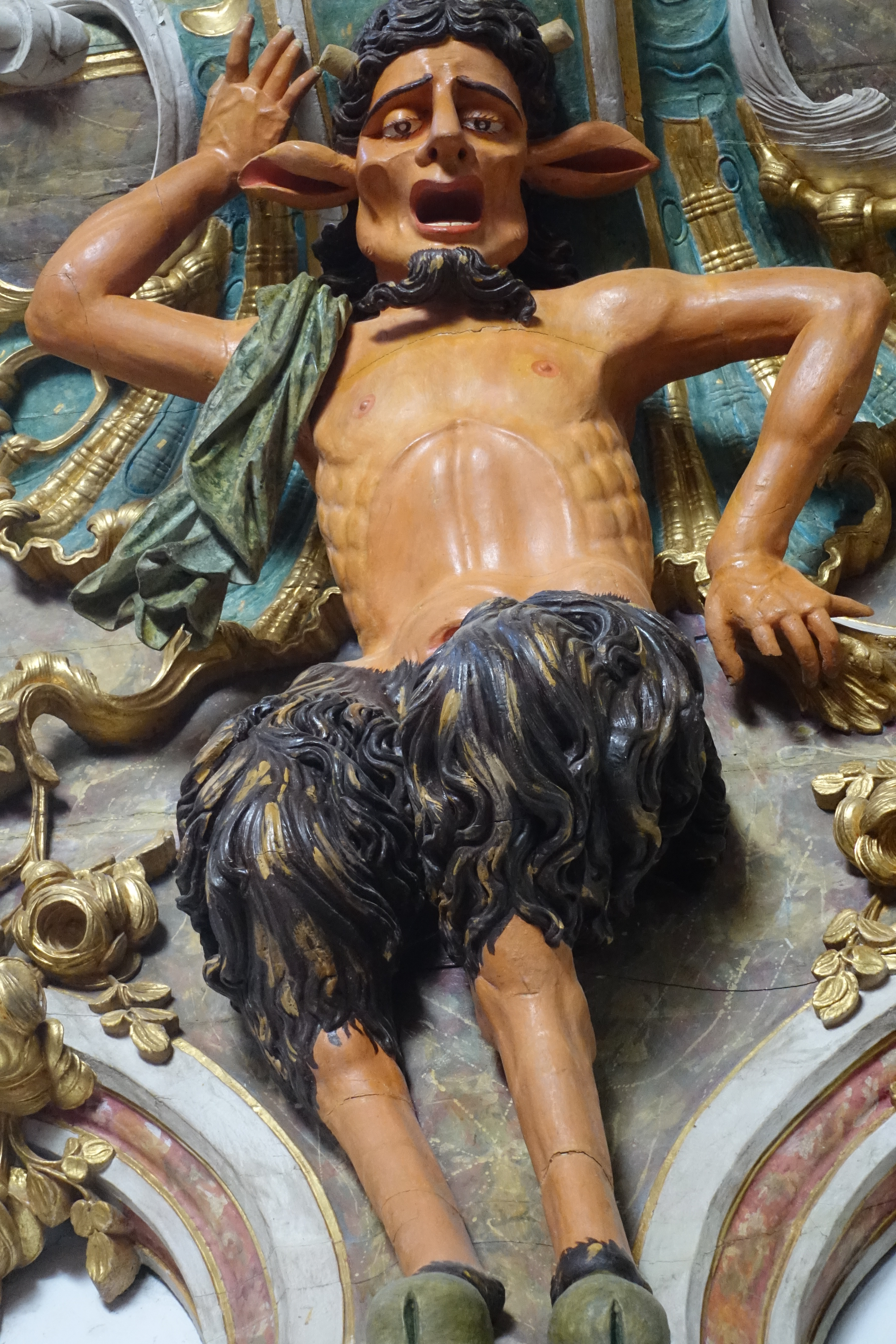 Interior of Mosteiro de São Miguel de Refojos de Basto Portugal.